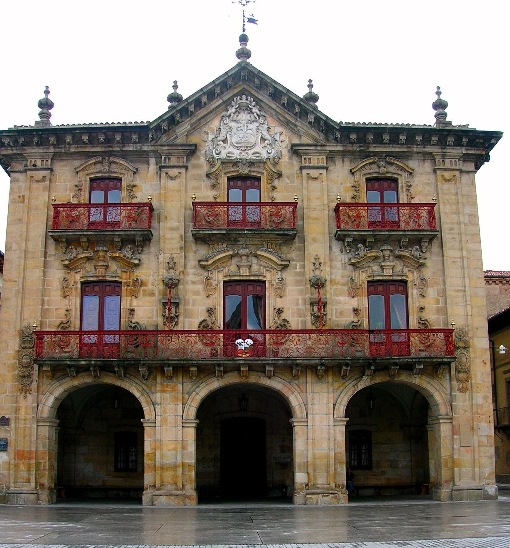 Ayuntamiento de Oñate (Guipúzcoa, País Vasco, España)